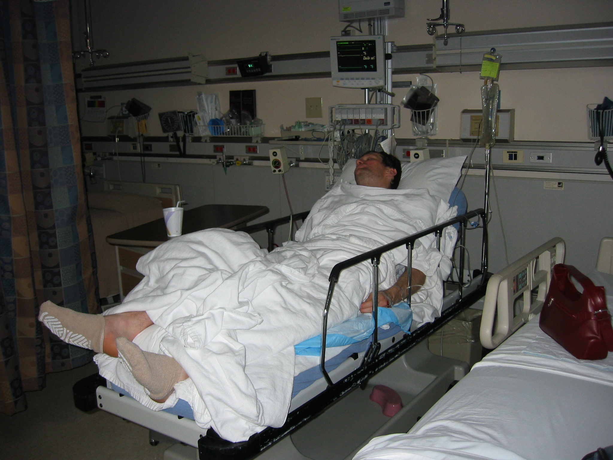 Anesthesized patient: postoperative recovery.